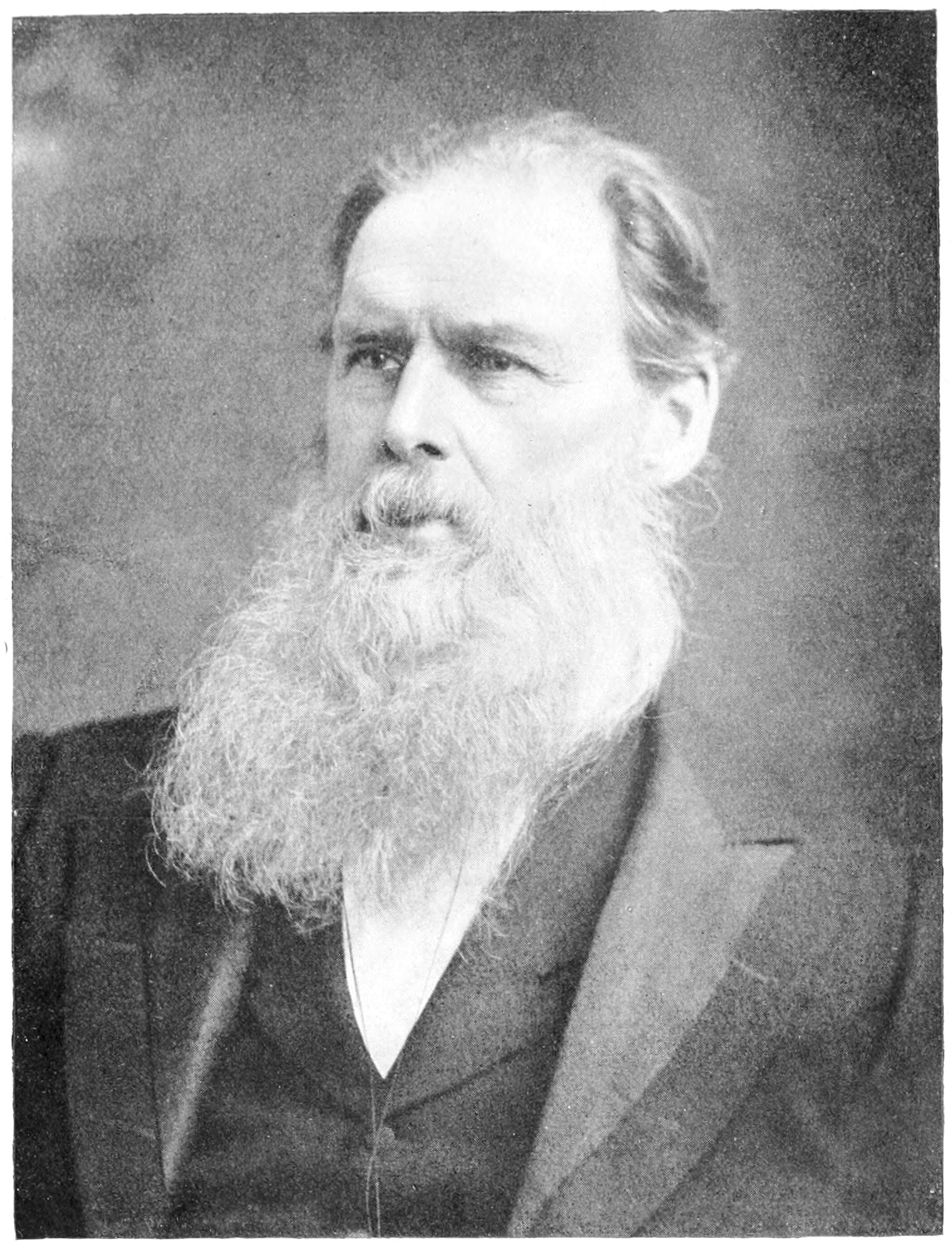 Illustration of E. B. Tylor from a collected volume of journals.